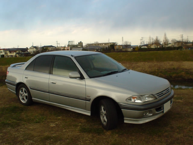 1996 Toyota Carina 1600GT(Type AT210) photo by me. taken in Japan,Saitama.